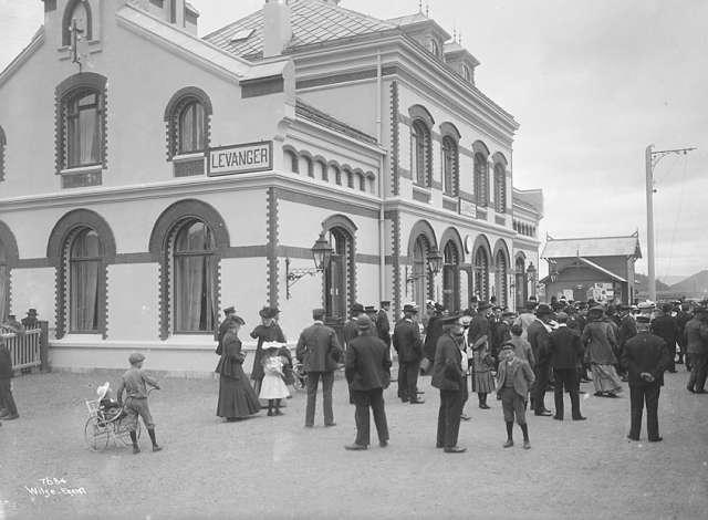 Levanger Station, Norway